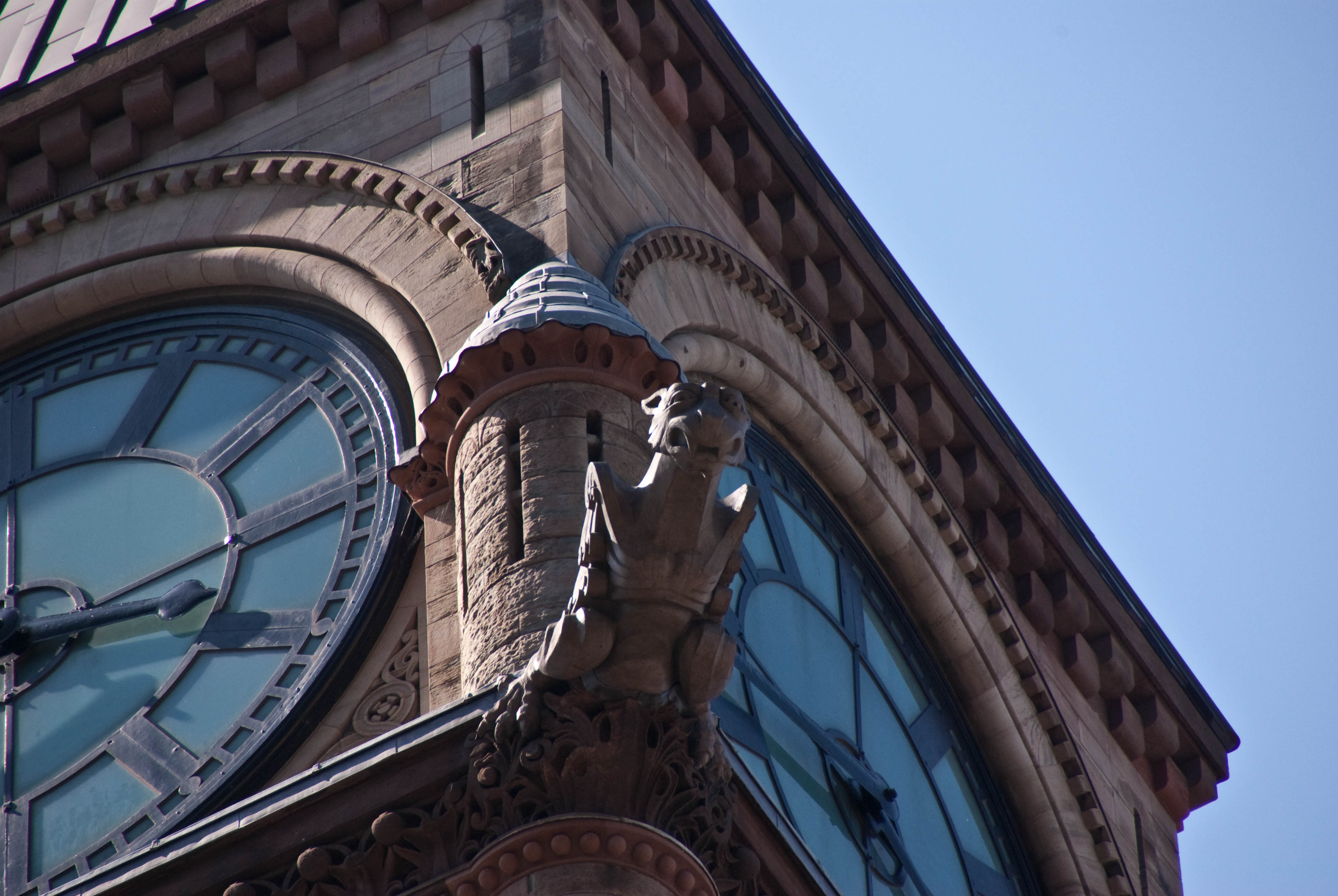 Gargoyle on Old City Hall, Toronto, Ontario Canada